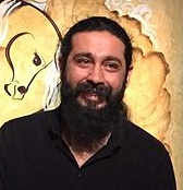 Sabri Tuluğ Tırpan photo